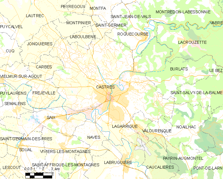 Map commune FR insee code 81065.png - Castres